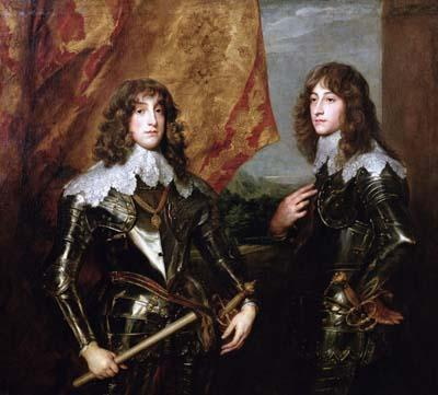 Prince Charles Louis Elector Palatine (1617-1680) and his Brother, Prince Rupert of the Palatinate (1619-1682)